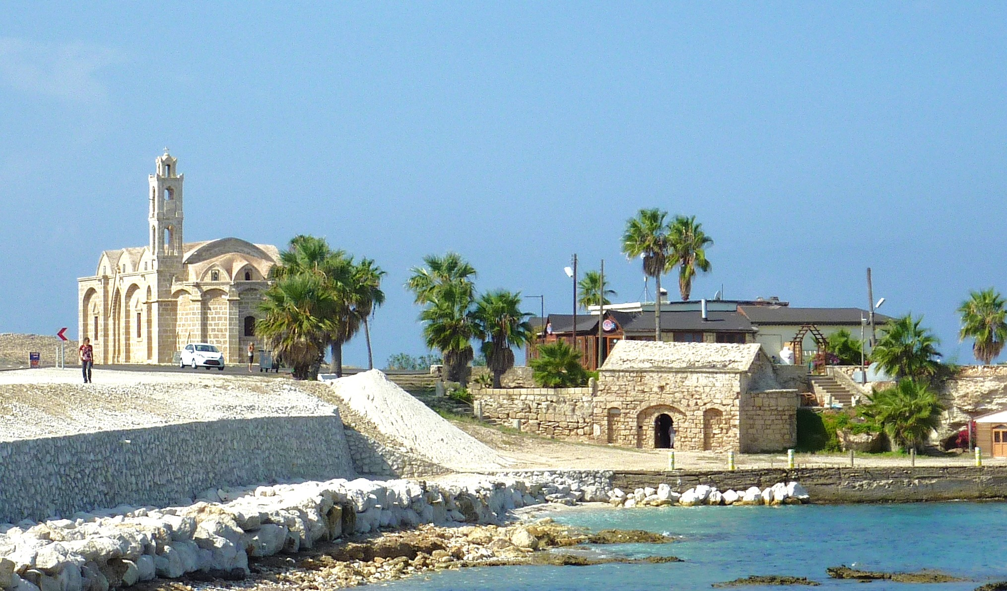 Ayios Thrysos and Byzantine Chapel, Karpaz, Northern Cyprus